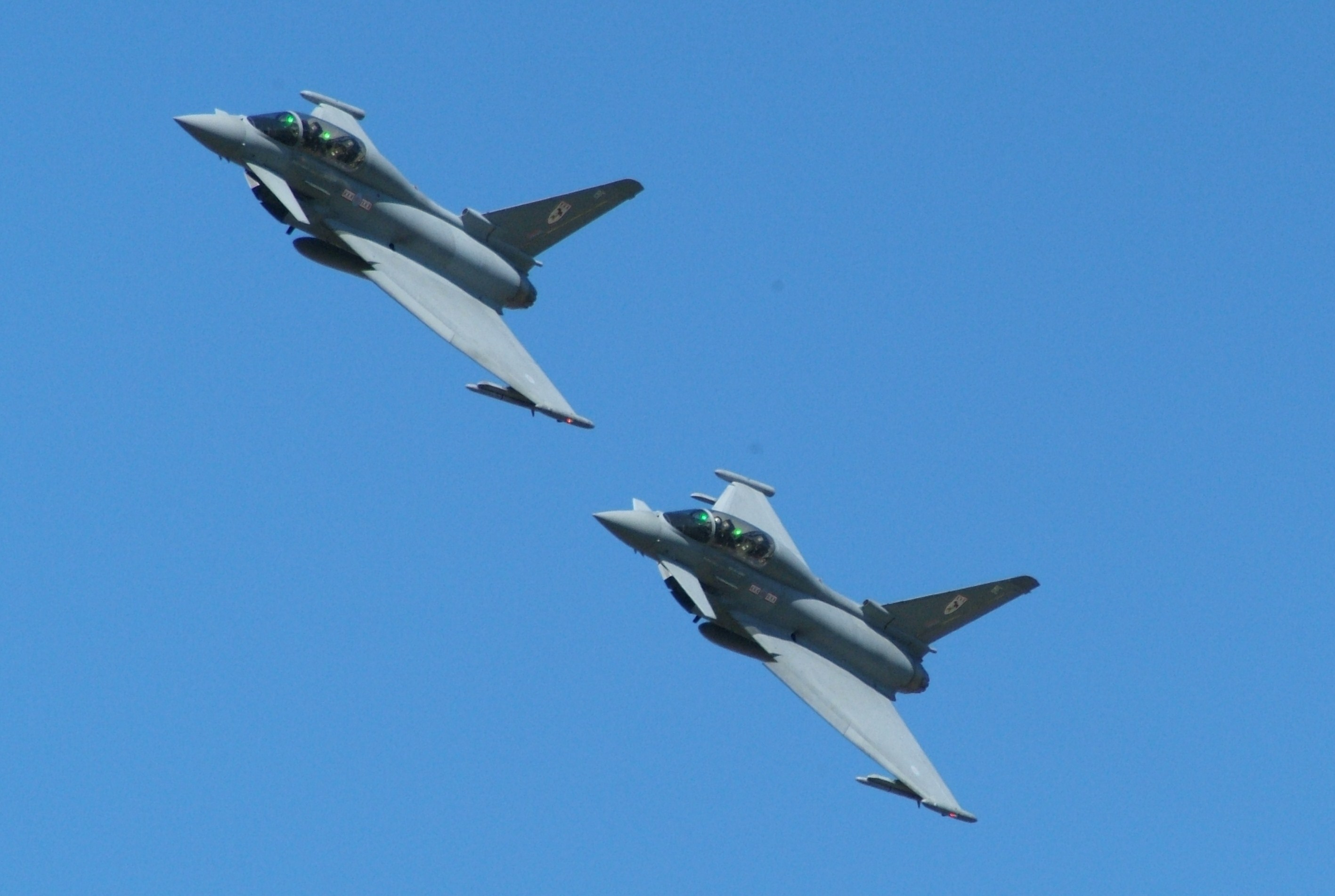 Coming round the corner